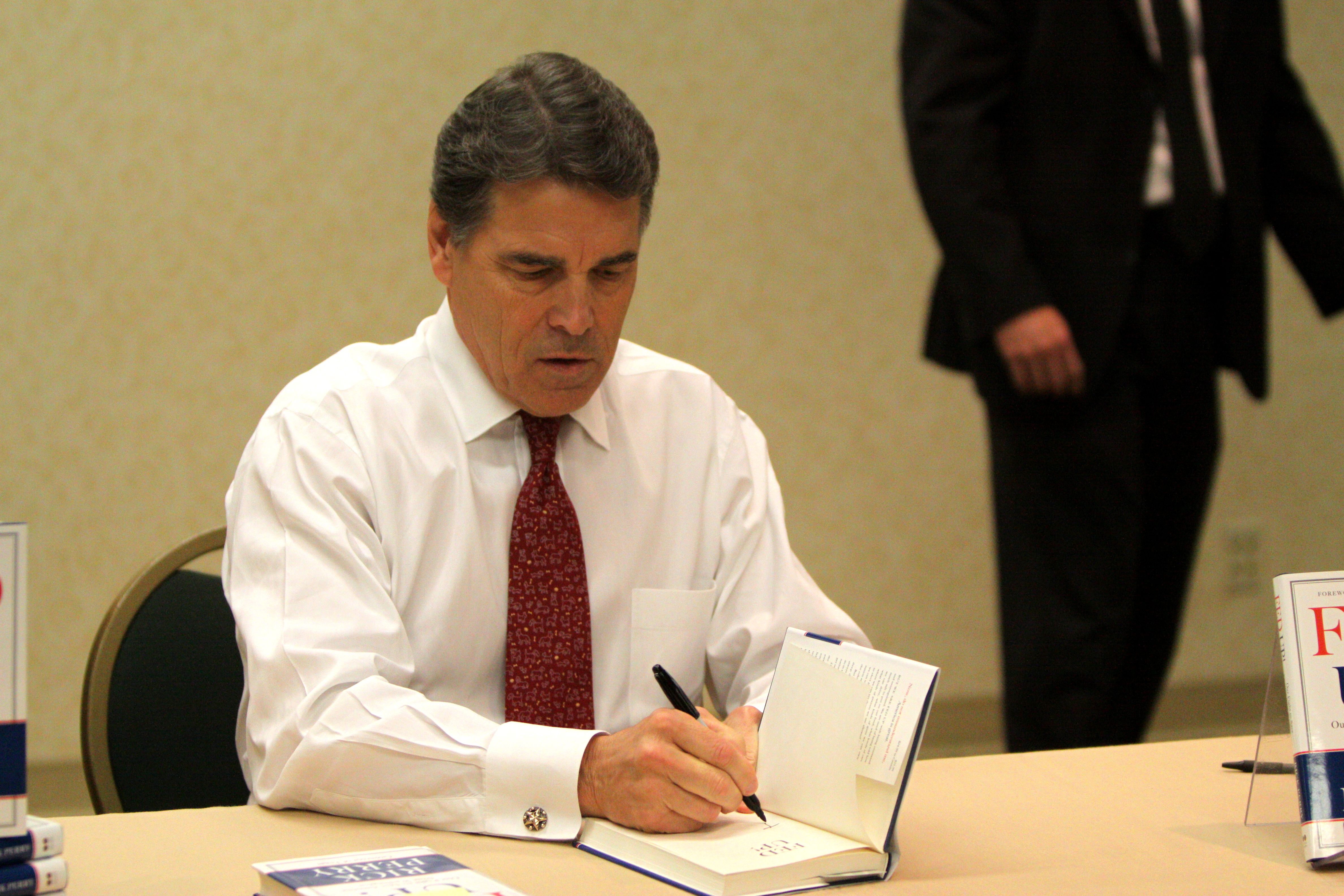 Governor Rick Perry of Texas at a book signing at the Republican Leadership Conference in New Orleans, Louisiana.